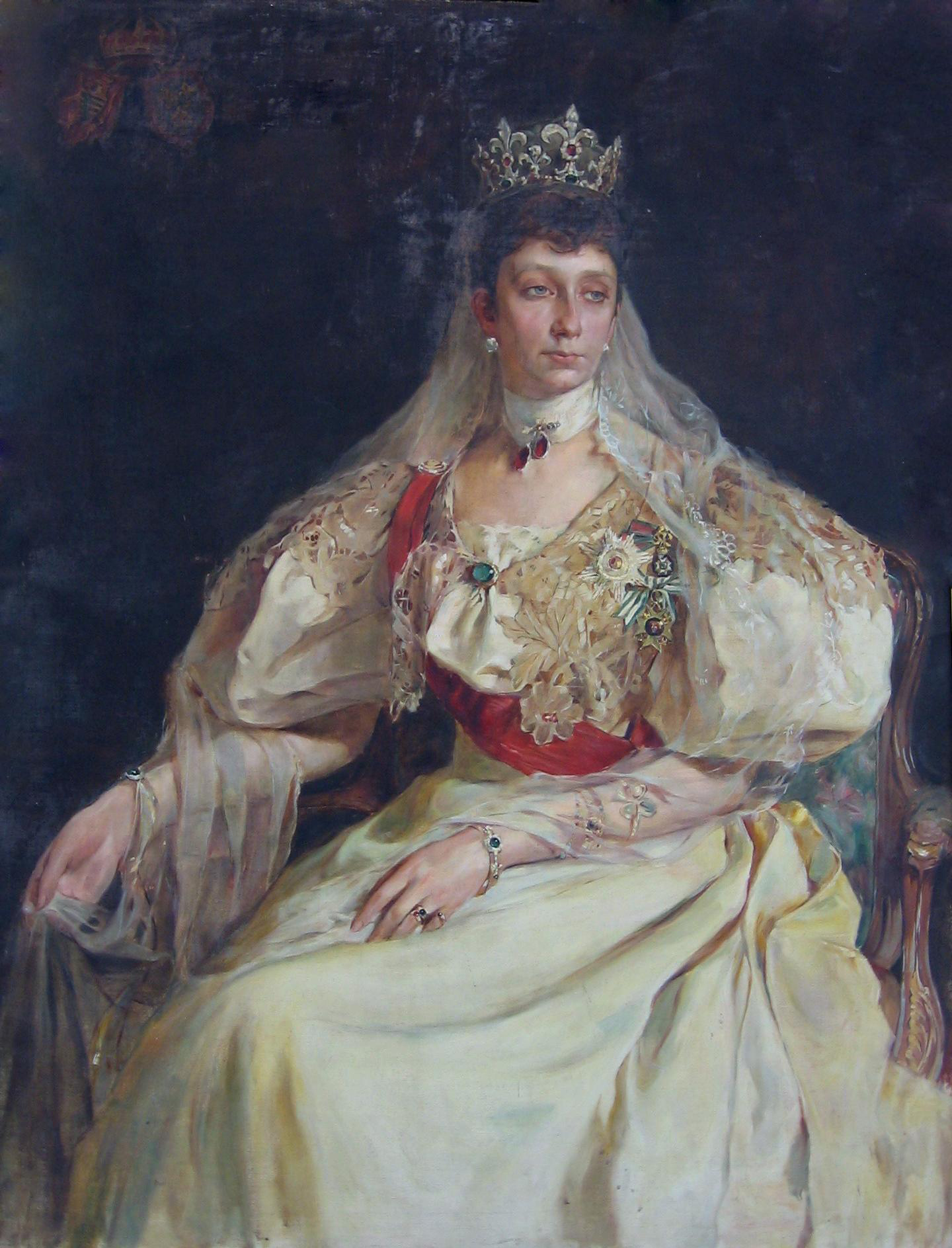 Portrait of Knyaginya Marie Louise of Bourbon-Parma of Bulgaria (1870-1899)